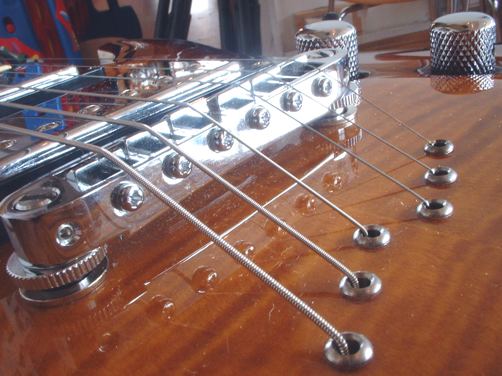 Bridge string thru body